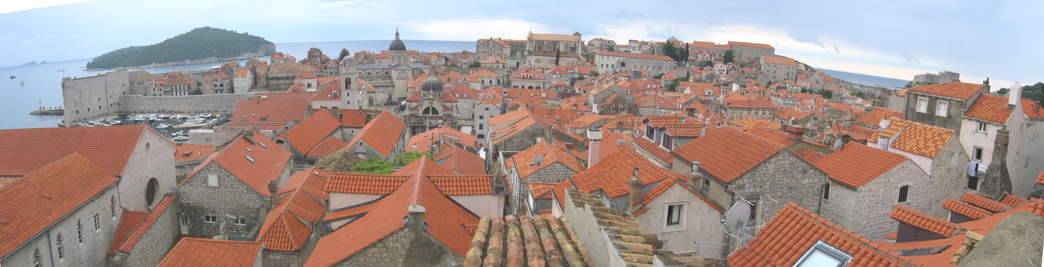 Panorama on the Old Town of Dubrovnik from the city walls, Dalmatia, Croatia